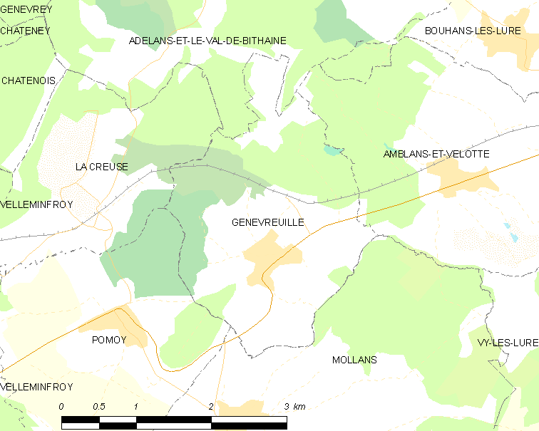 Map of French municipality